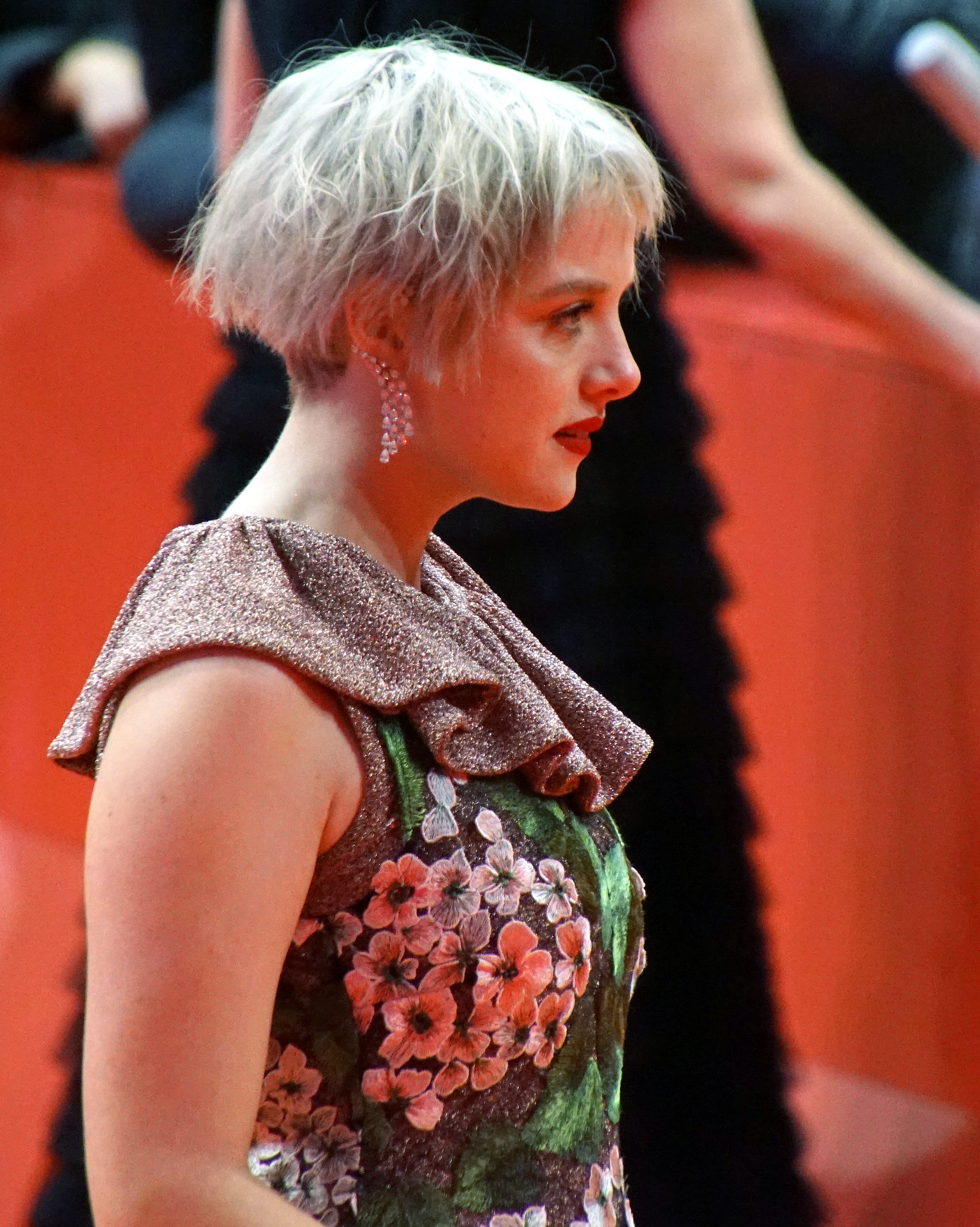 Jella Haase on the red carpet at the opening night of the Berlinale 2020, playing a leading role in the competition film Berlin Alexanderplatz, a new adaptation of the novel by Alfred Döblin.